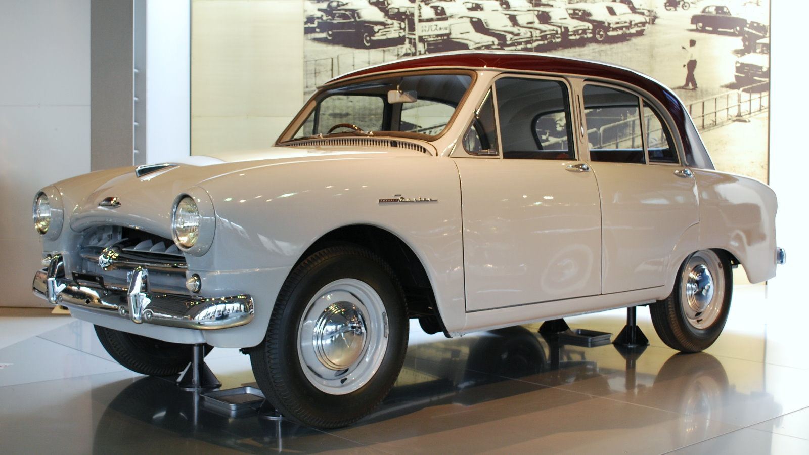 Toyopet Master (1955/1 - 1956/11)